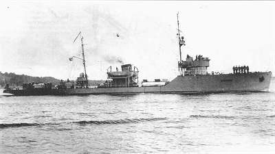 The Soviet project 53 base minesweeper T-3 Podsekatel.